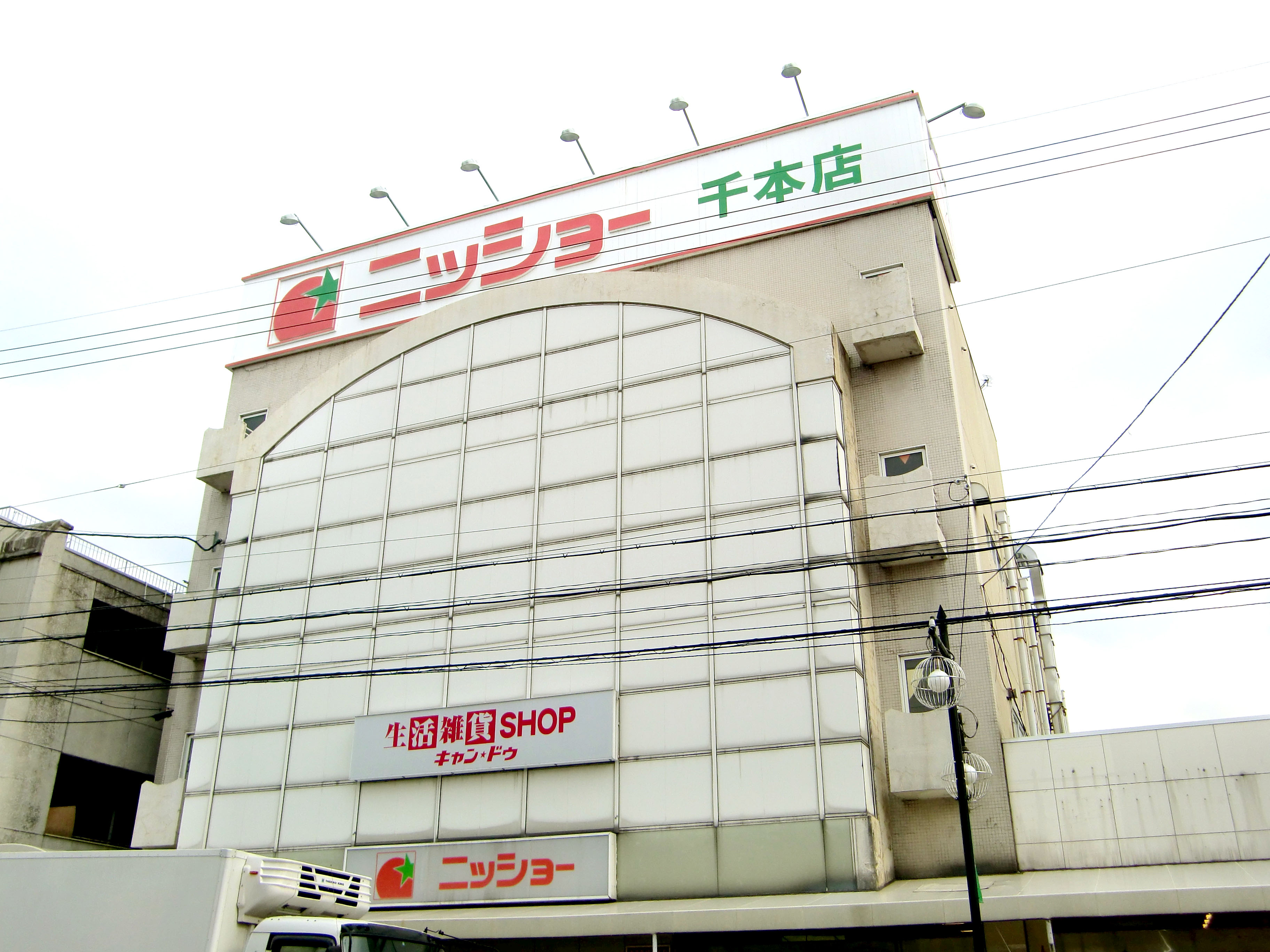 Hankyu Nissho Store Senbon,Sembondori-Shimochojamachi Kamigyo-ku Kyoto-City JAPAN.